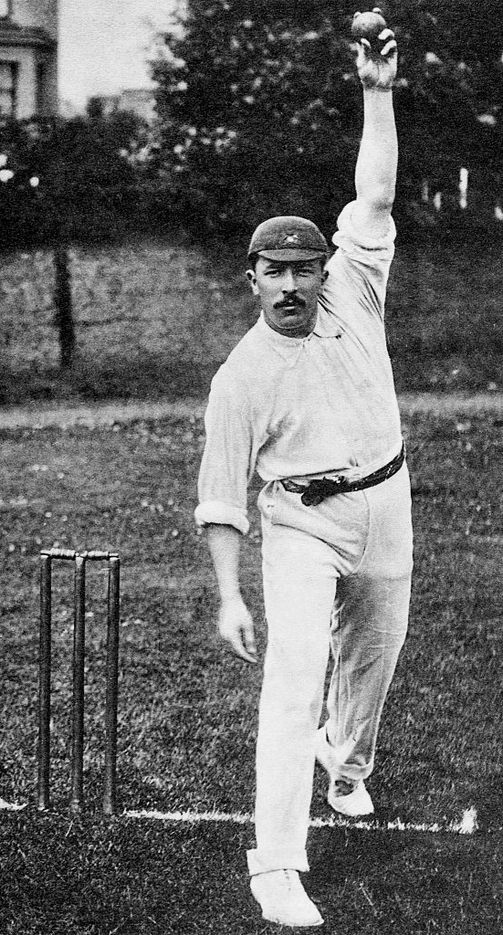 John Gunn of Nottinghamshire, circa 1904.